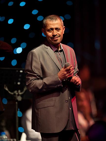 George Wassouf is a famous Syrian singer.